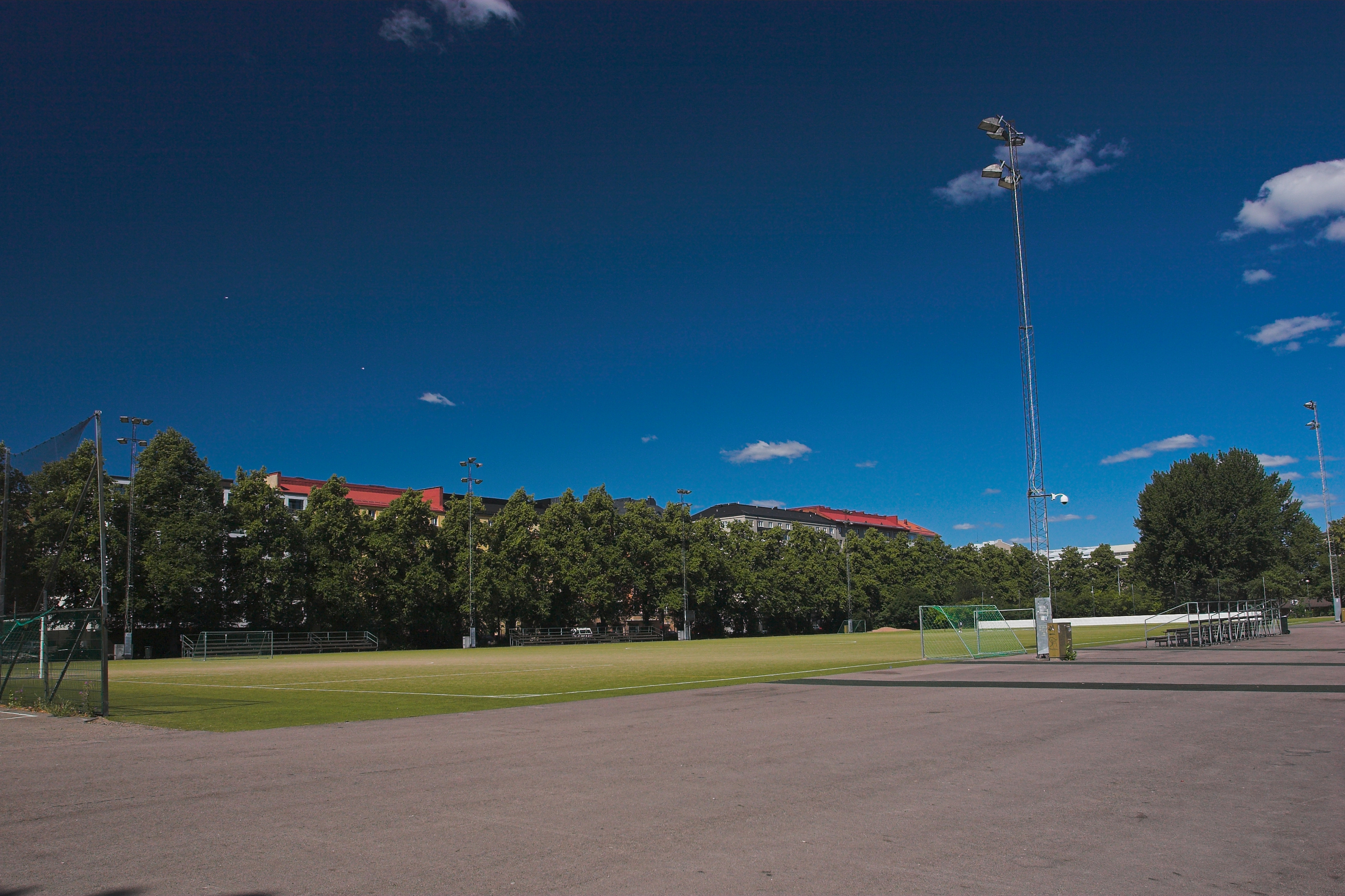 The Brahe sportsfield in Helsinki, Finland